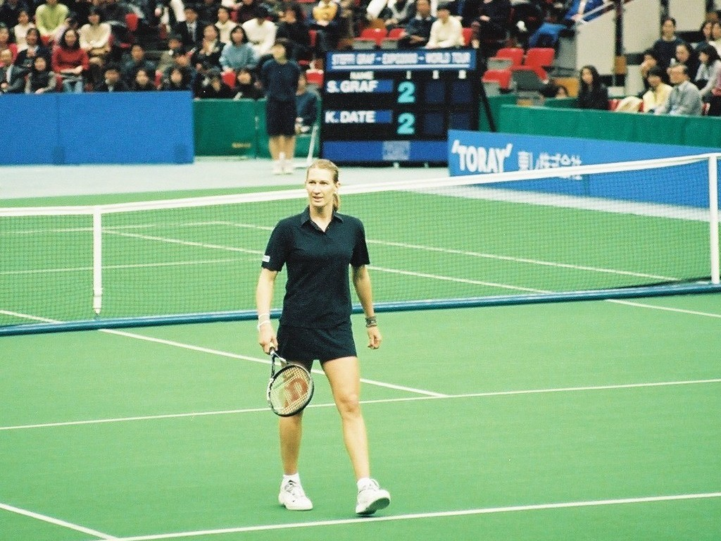 Steffi Graf plays an exhibition match with Kimiko Date at Nagoya Rainbow Hall in February 7, 2000. It was held as a part of her "Farewell World Tour".